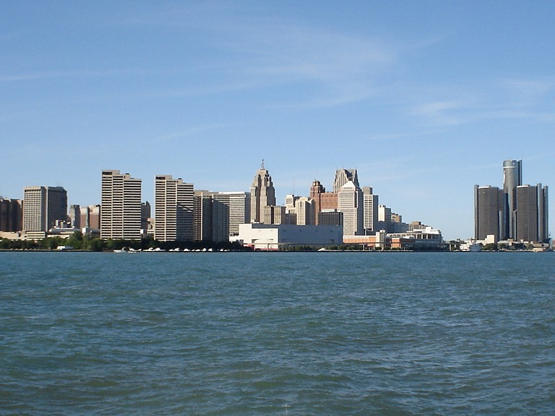 Detroit skyline in 2005.